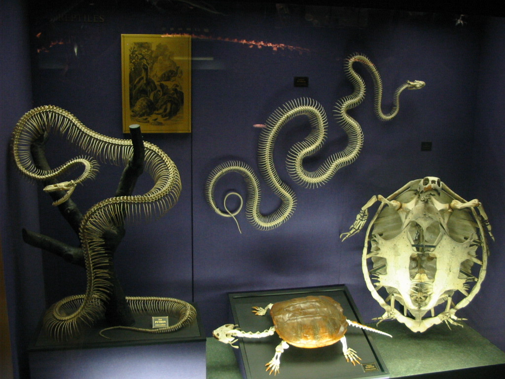 A display on the skeletal structure of snakes and other reptiles, Australian Museum, Sydney, Australia.